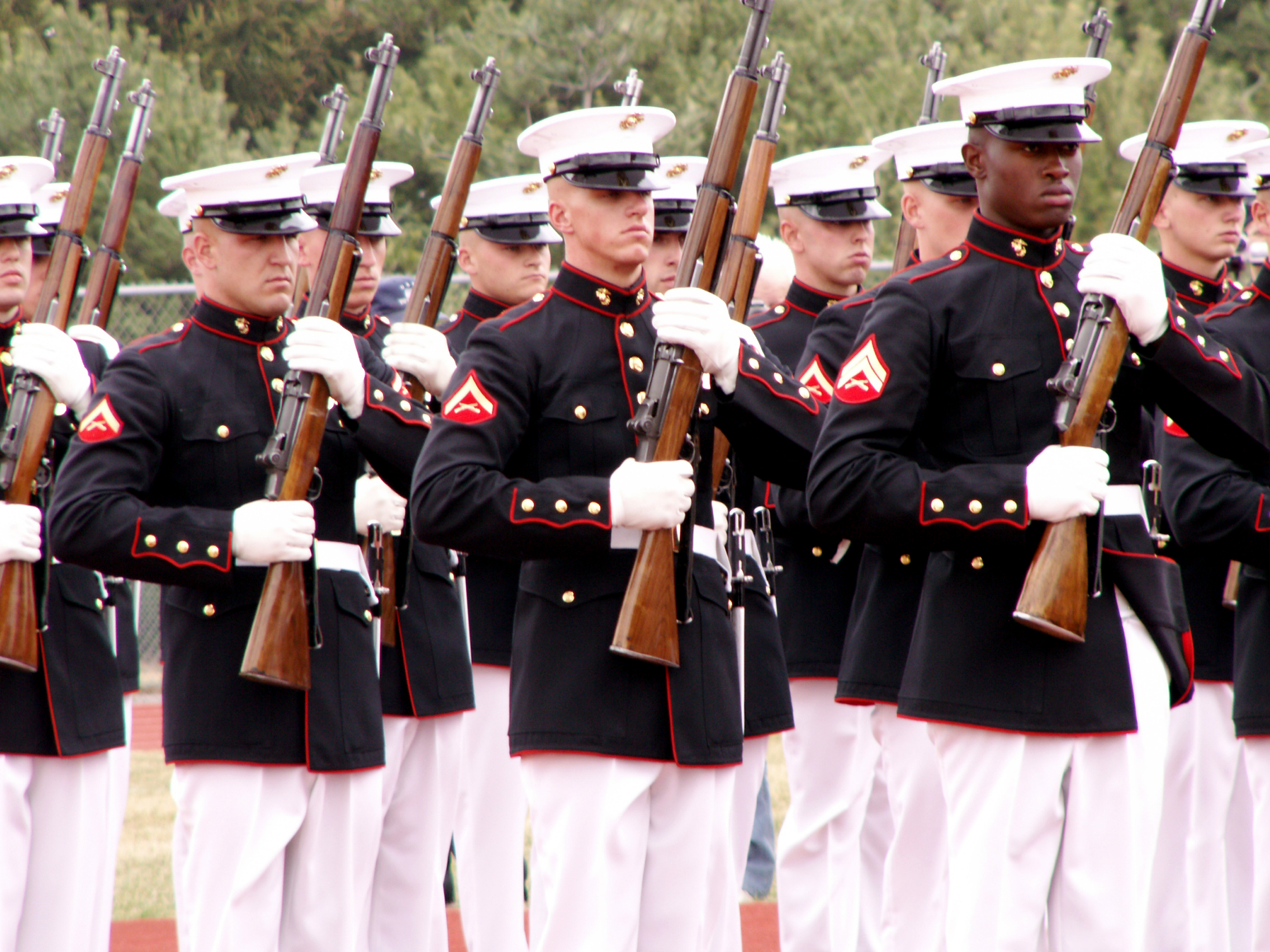 The Marine Corps Silent Drill Team. Freehold Regional High School District Navy JROTC Academy "Service to America Day" Colts Neck High School, Colts Neck, NJ April 1, 2006.